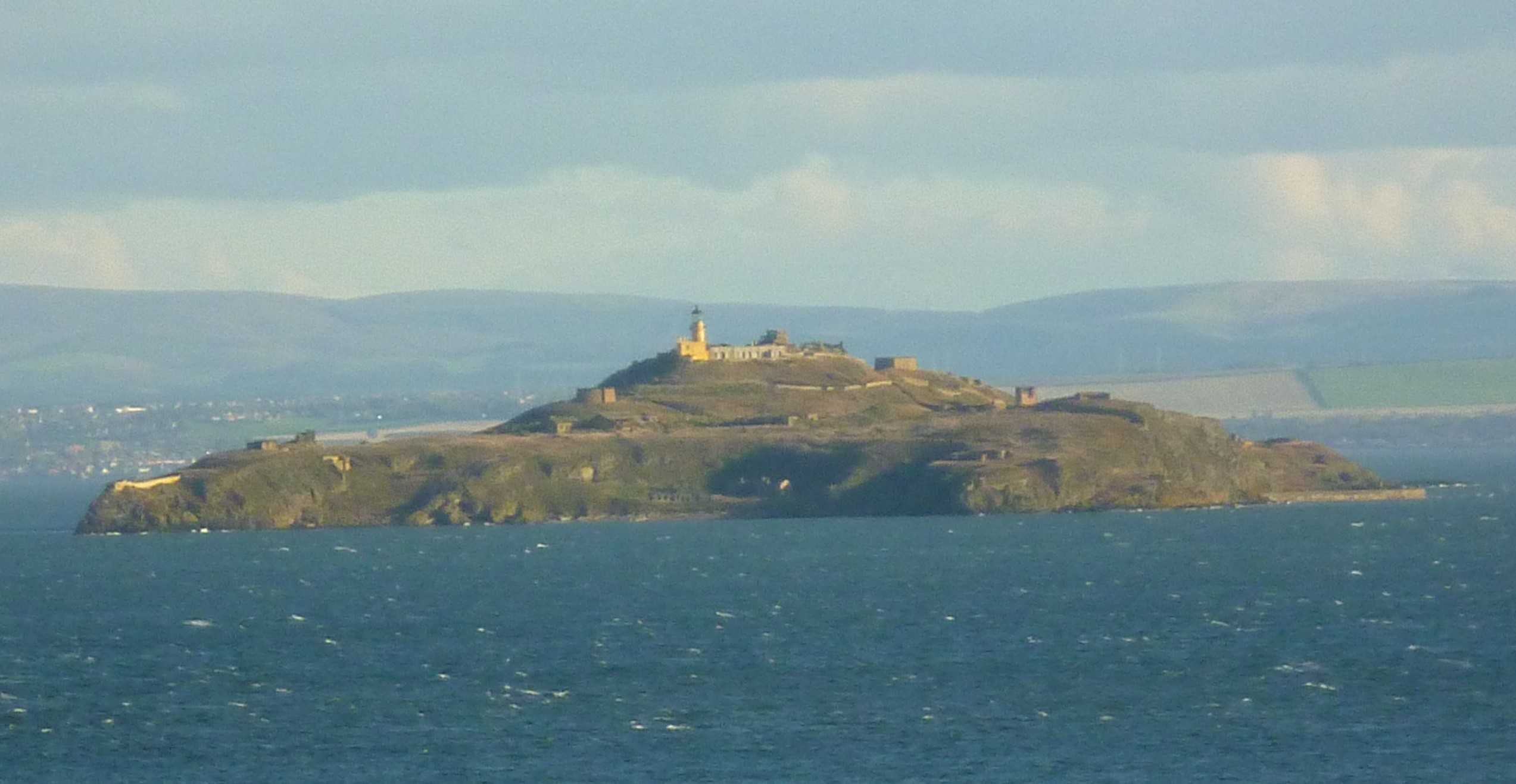 Inchkeith from Pettycur Bay, Fife